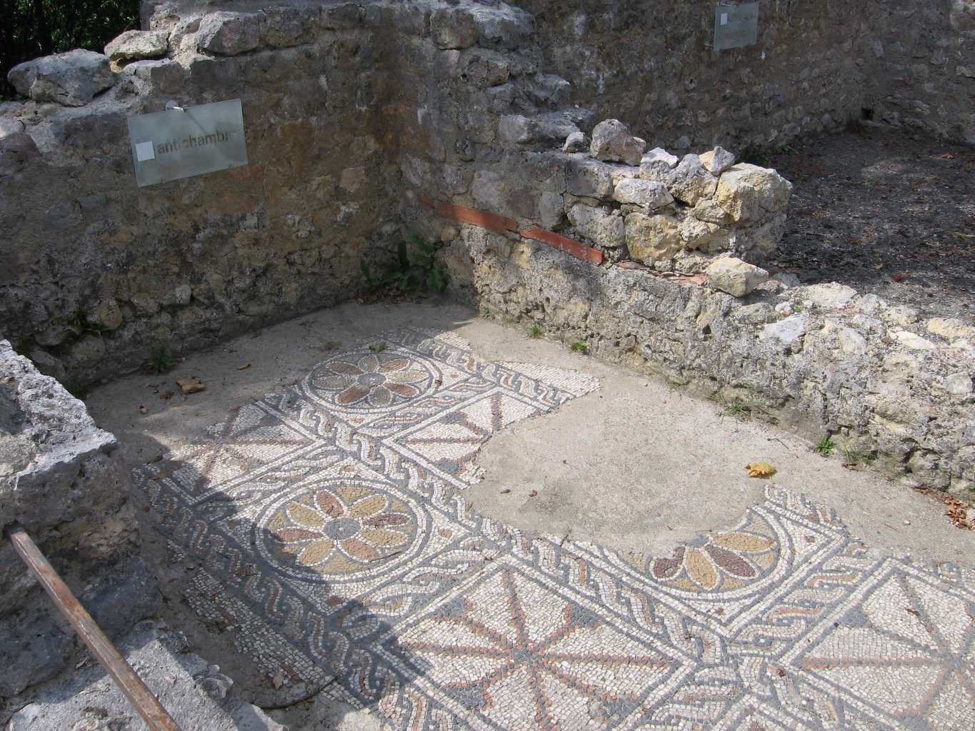 Roman villa in Montmaurin, France. Antechamber.